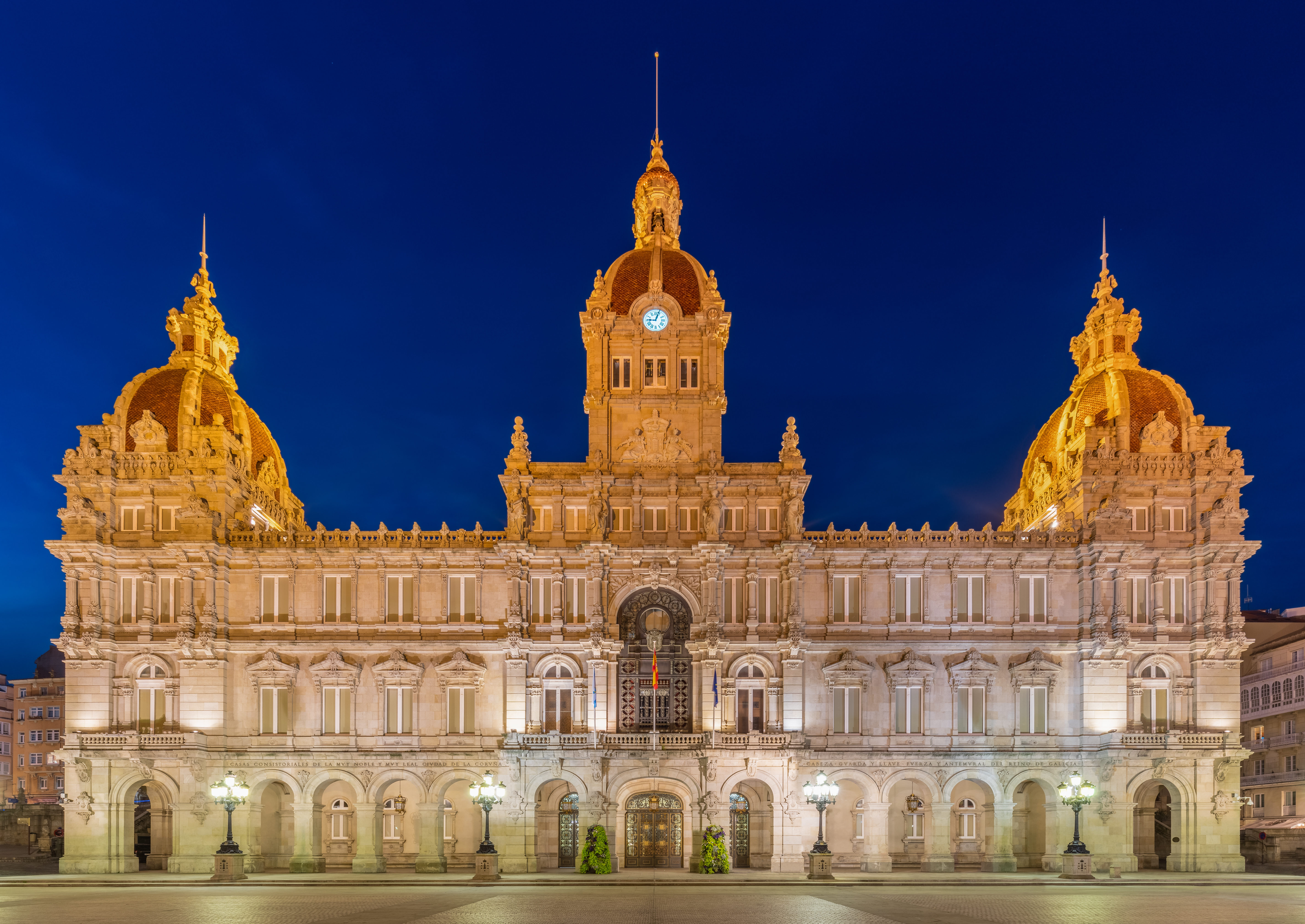 Front view of the city Hall of A Coruña, also called Municipal Palace, during the blue hour, Galicia, Spain. The modernist building is located in the María Pita Square in the center of the city and was built between 1908 and 1912 following a design of Pedro Ramiro Mariño. It was inaugurated in 1927 by the king Alfonso XIII. The facade is 64 metres (210 ft) width and has 43 windows, whereas the surface of the building is 2,300 m2 (24,757.0 sq ft). The 4 statues in the third floor represent the 4 provinces of Galicia (A Coruña, Lugo, Orense and Pontevedra) and over them, in the middle, is the coat of arms of the city. The 2 dames flanking it symbolize Peace and Industry and Work and Wisdom. In the tower in the middle is the clock and the bells, they are made of bronce and tin and weigh 1,600 kilograms (3,527 lb).